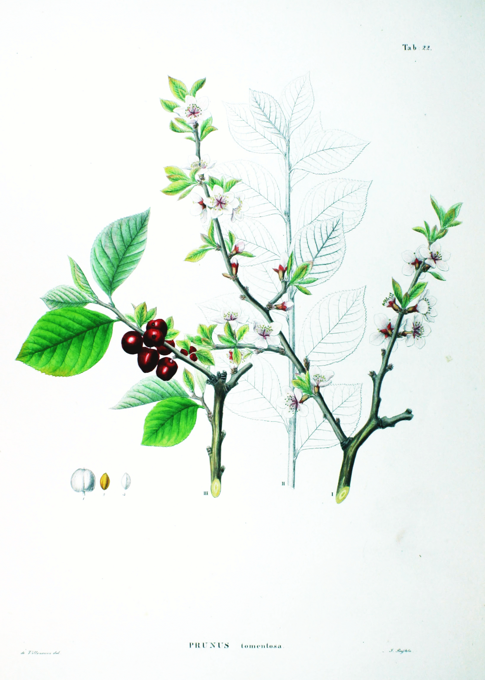 Plate from book